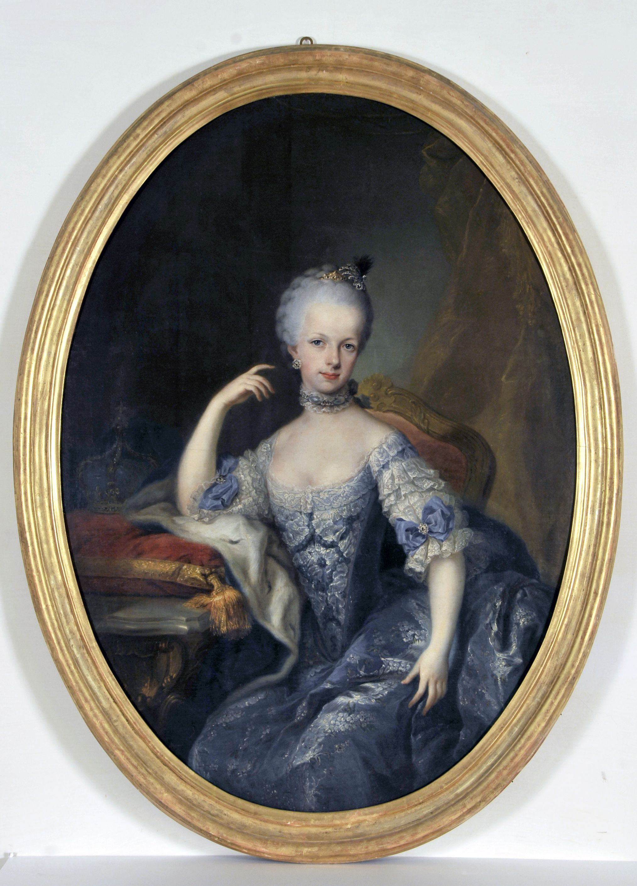 Archduchess Maria Josepha of Austria (Vienna, 1751-1767), daughter of Maria Theresa of Austria and Francis I, Emperor of the Holy Roman Empire